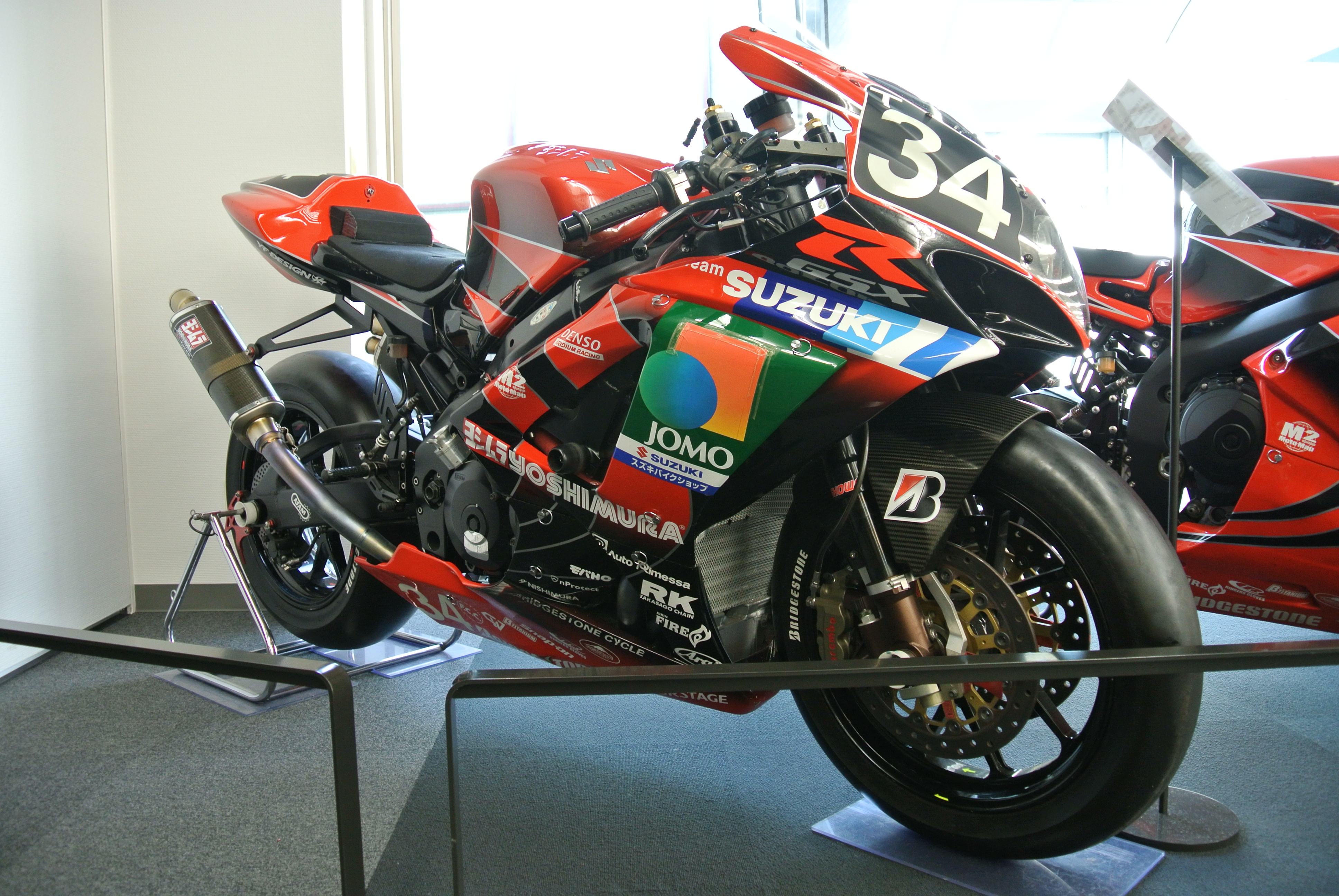 2007 Yoshimura Suzuki GSX-R1000 in the Suzuki History Museum.